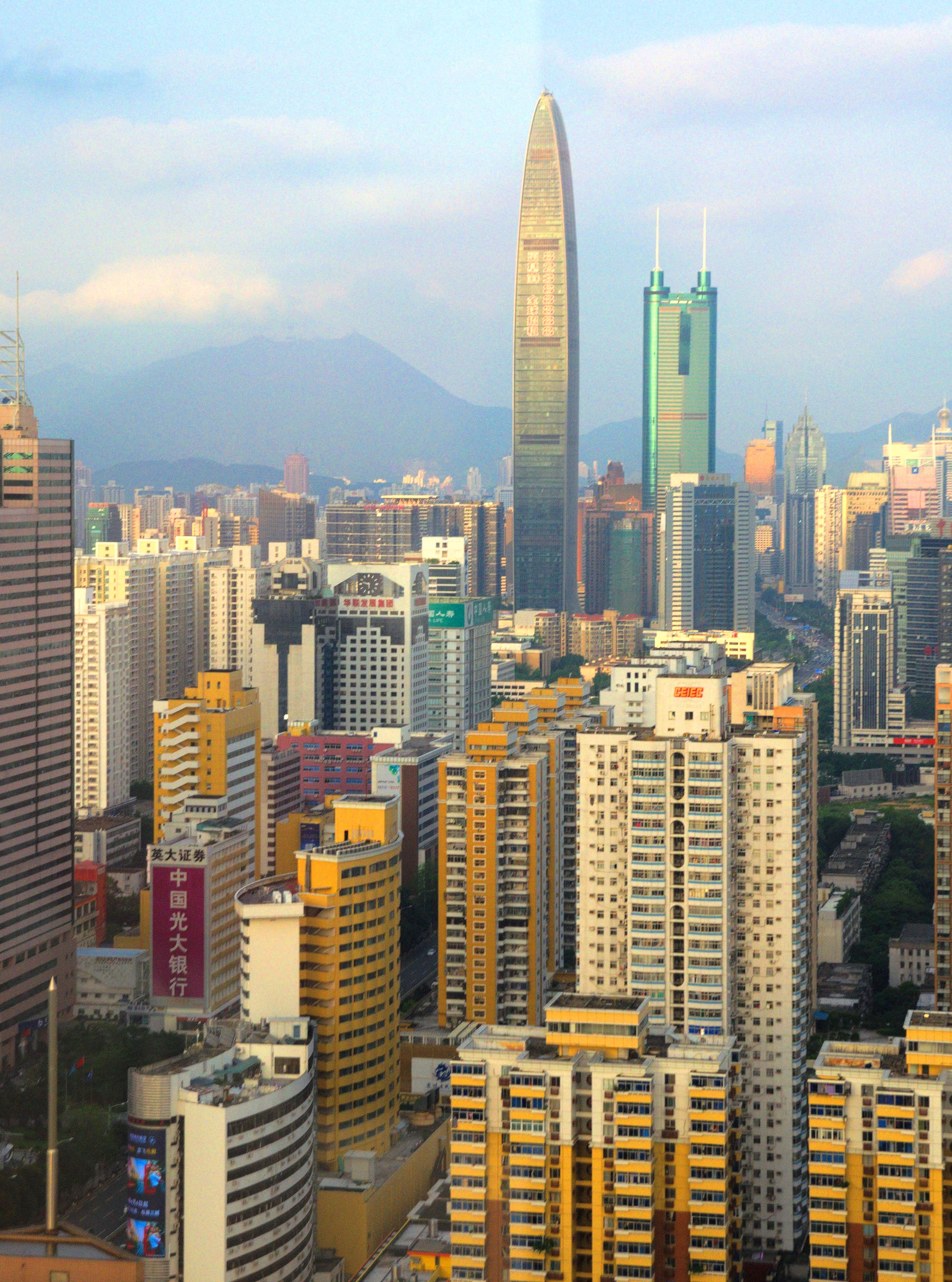 Shenzhen town center, in Luohu district.